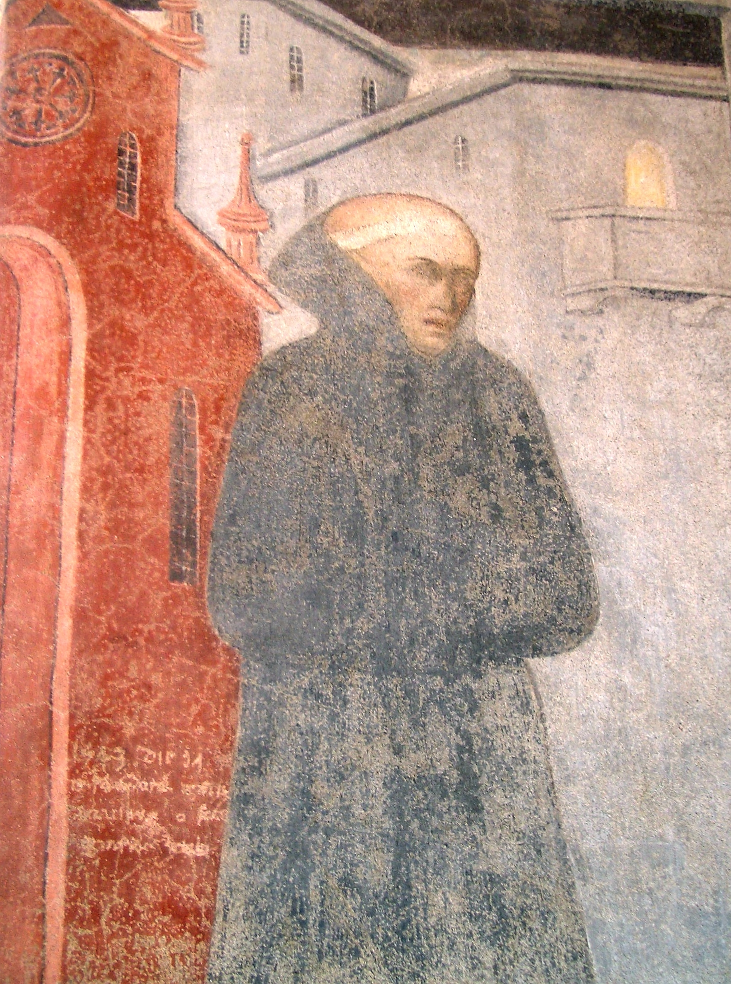 Two anonymous painters, called "Autore delle case grigie" and "Autore dei castelli rossi", An idle Benedictine monk, fresco cicle dedicated to the life of Benedict of Nursia, XV century, Abbey cloister, St. Nazzaro and Celso Abbey, San Nazzaro Sesia, Novara, Italy.